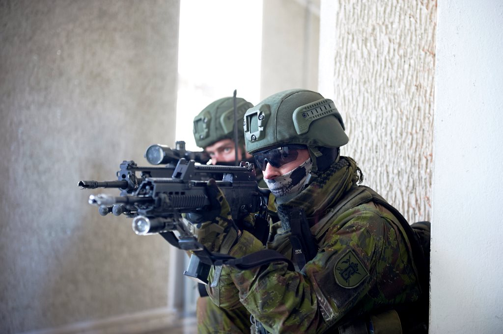 Lithuanian soldiers at Zaibo kirtys 2016 exercise